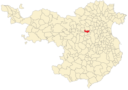 Crespià